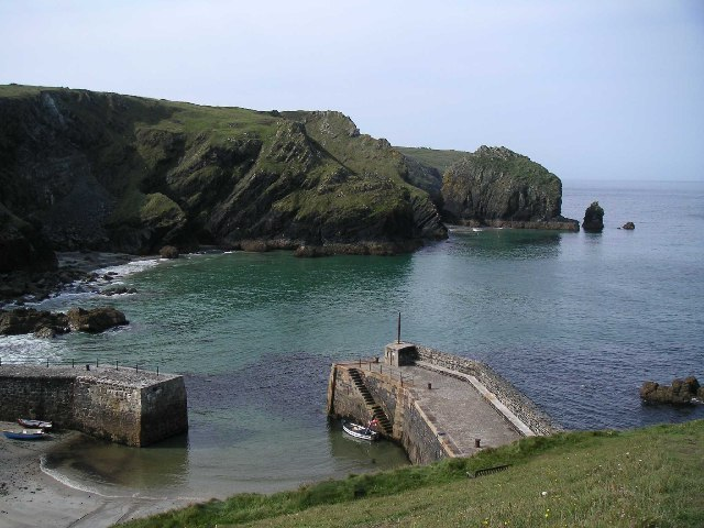 Mullion Cove. Picture taken looking south